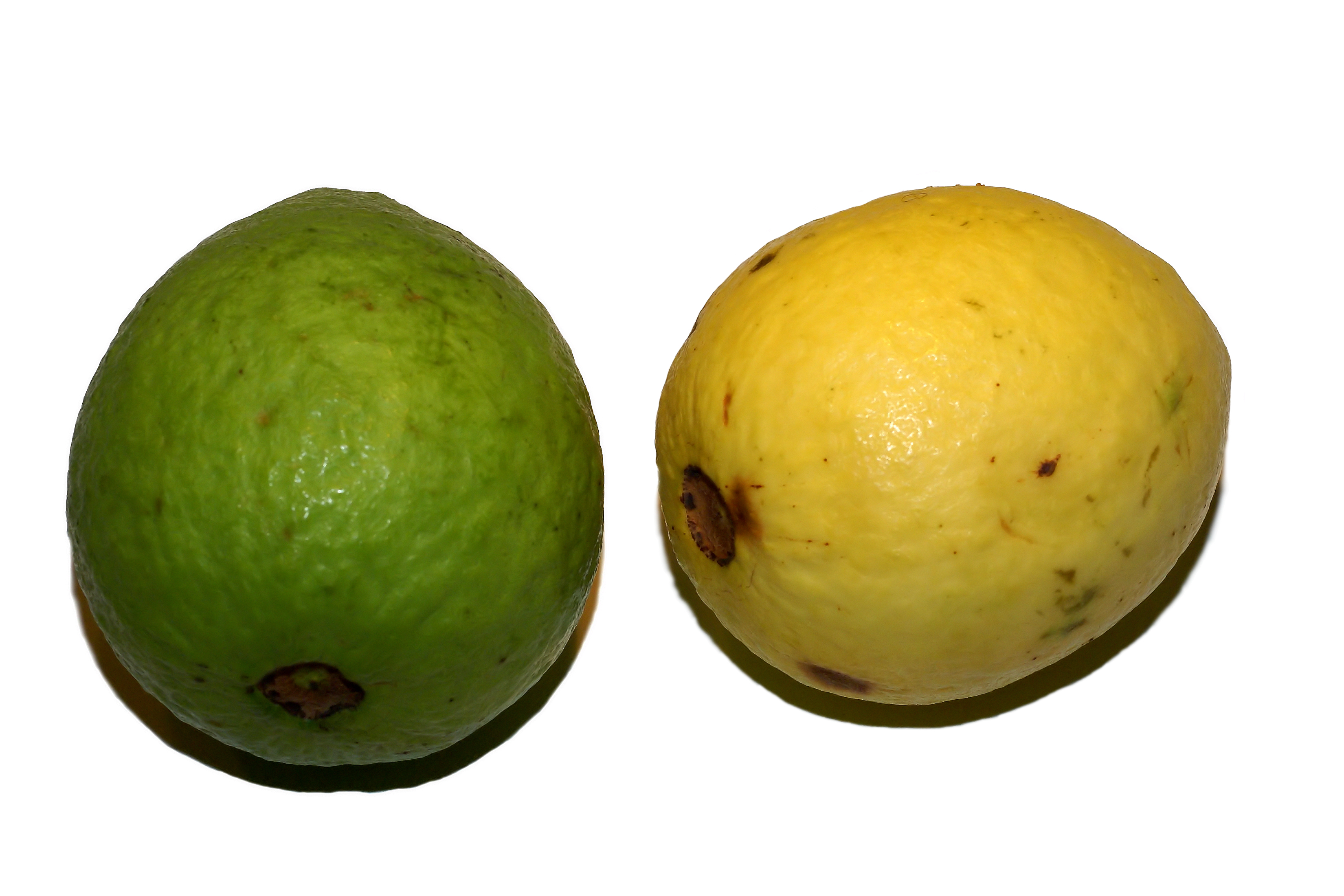 Unripe (left) and ripe (right) fruits.